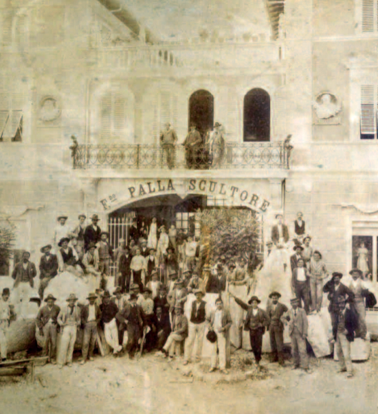 Laboratorio Palla a Pietrasante nel 1870